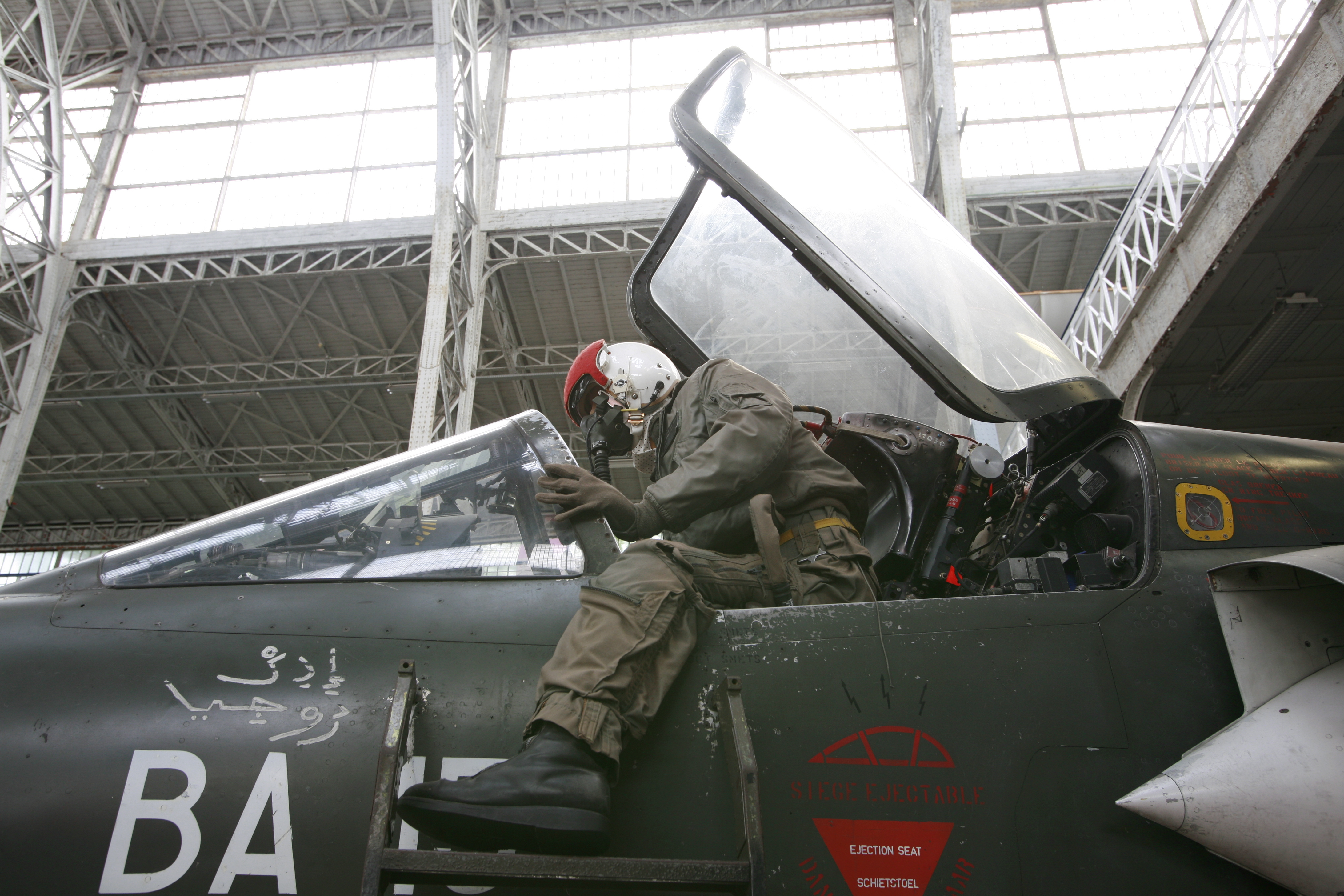 Dassault Mirage 5